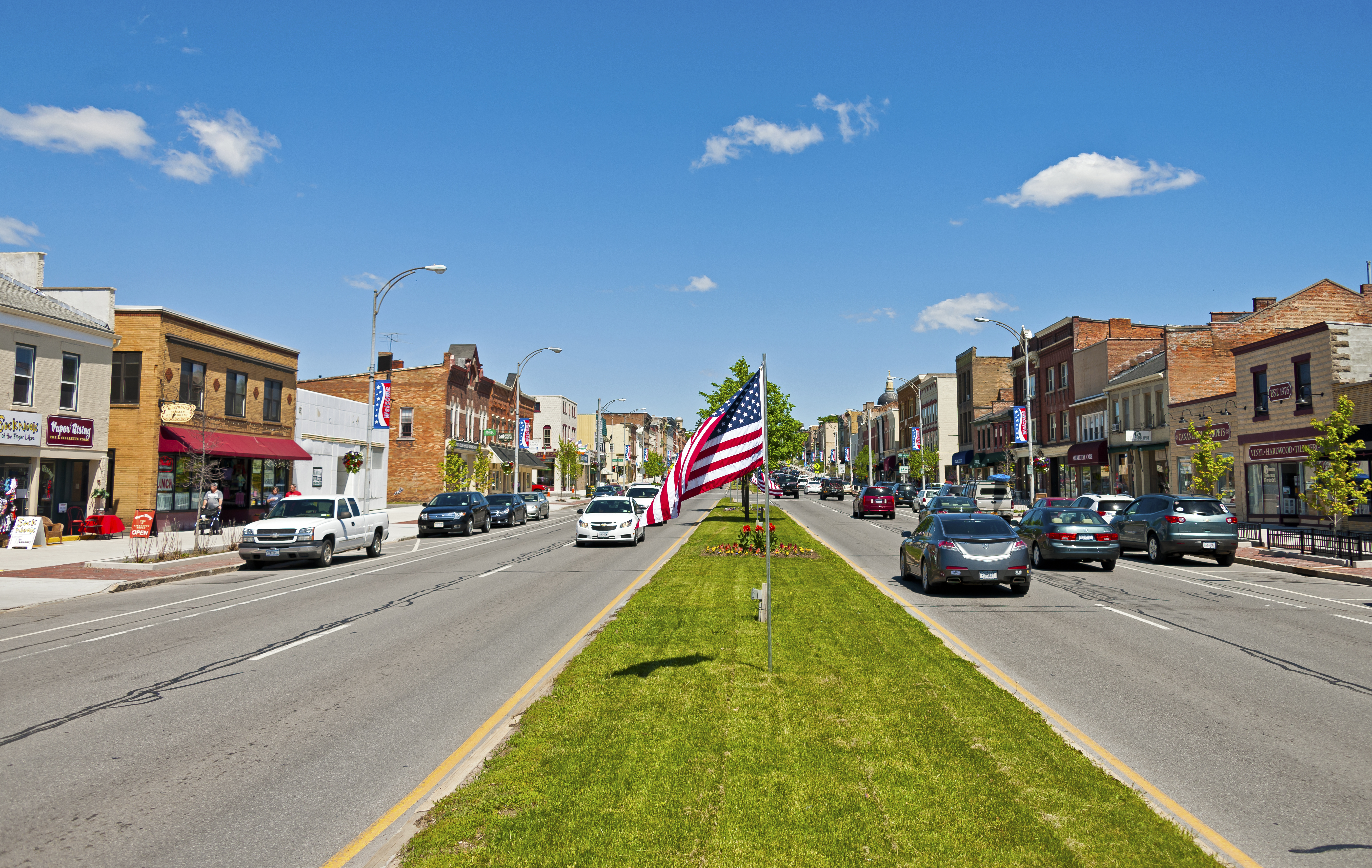 Downtown Canandaigua, NY, USA, from the median strip on Main Street (NY 21/332))